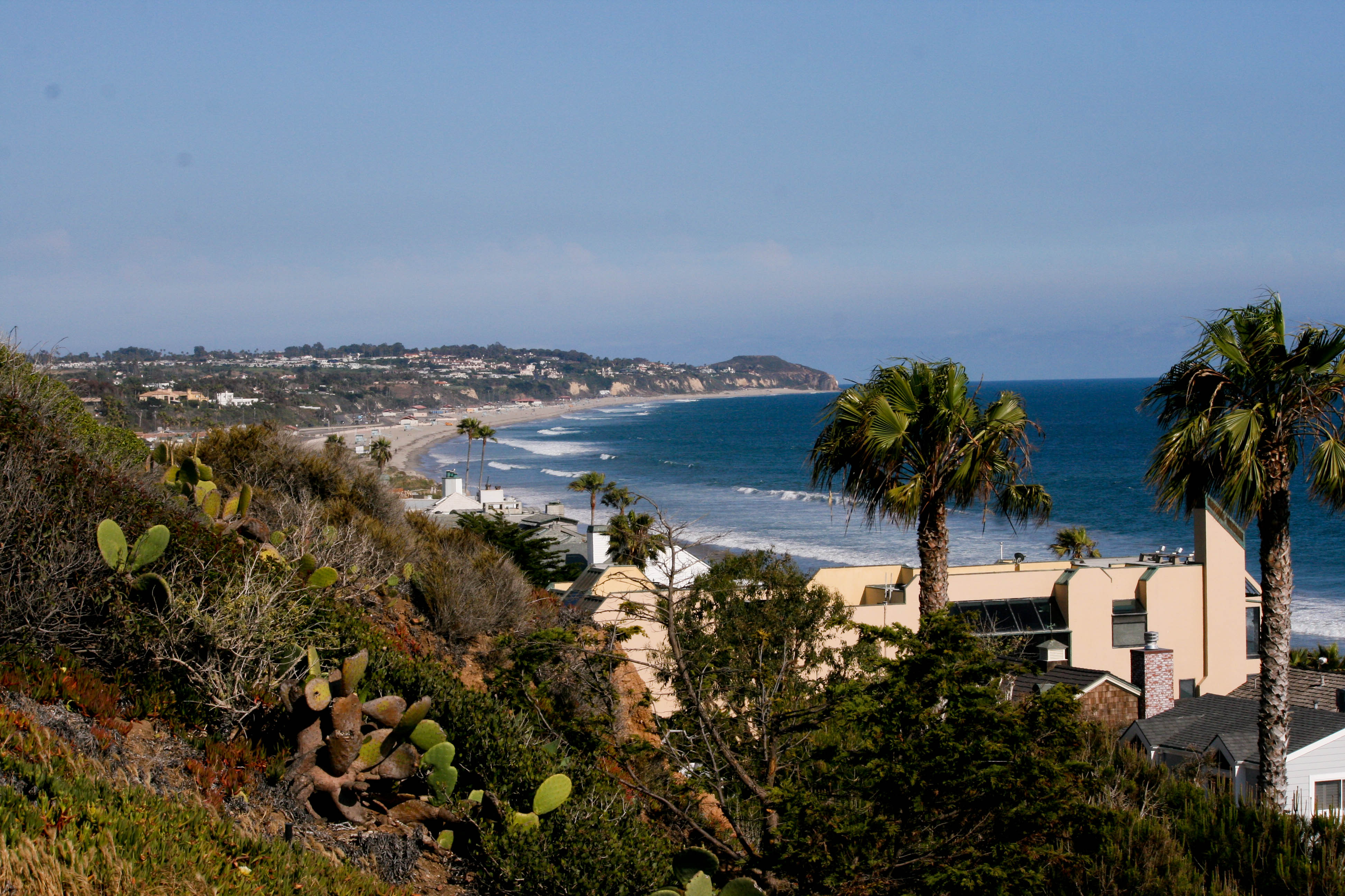 A color digital photo of the beach in Malibu